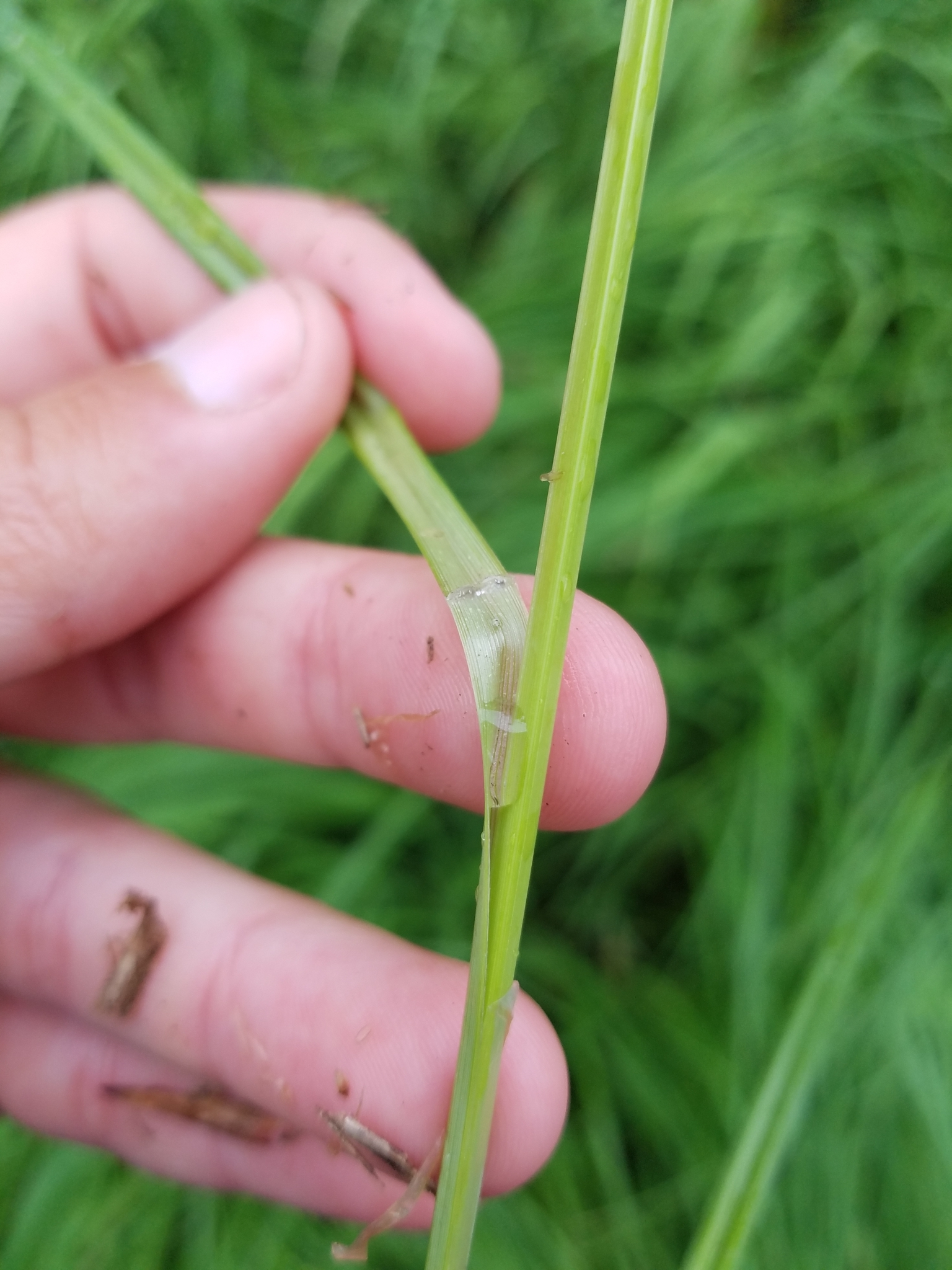 Carex emoryi in Duluth, Minnesota